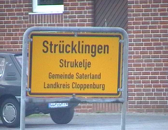 Bilingual place-name sign in Saterland.